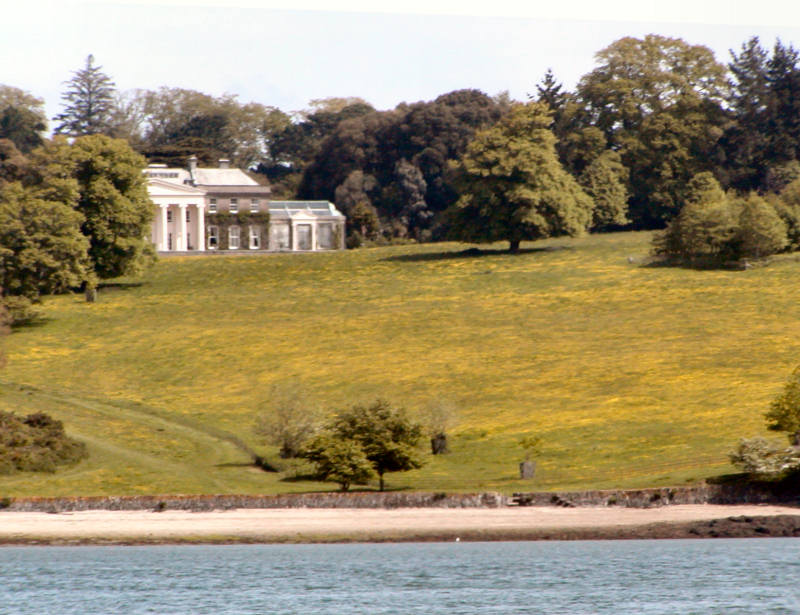 Trelissick